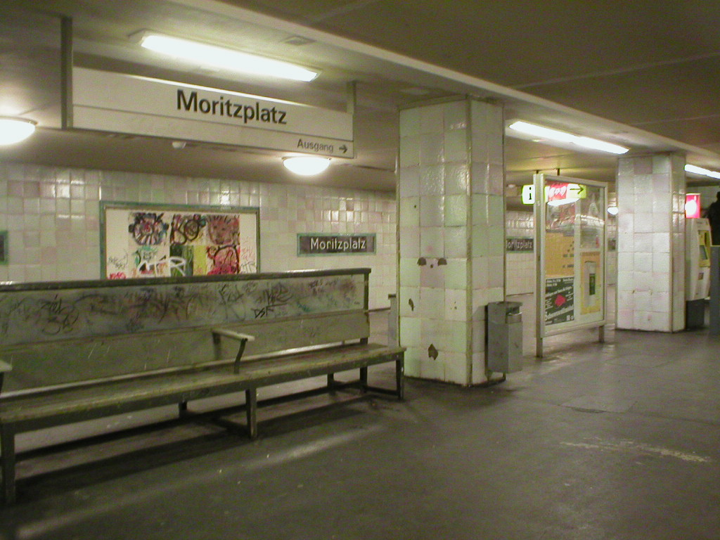 Moritzplatz underground station; Berlin, Germany